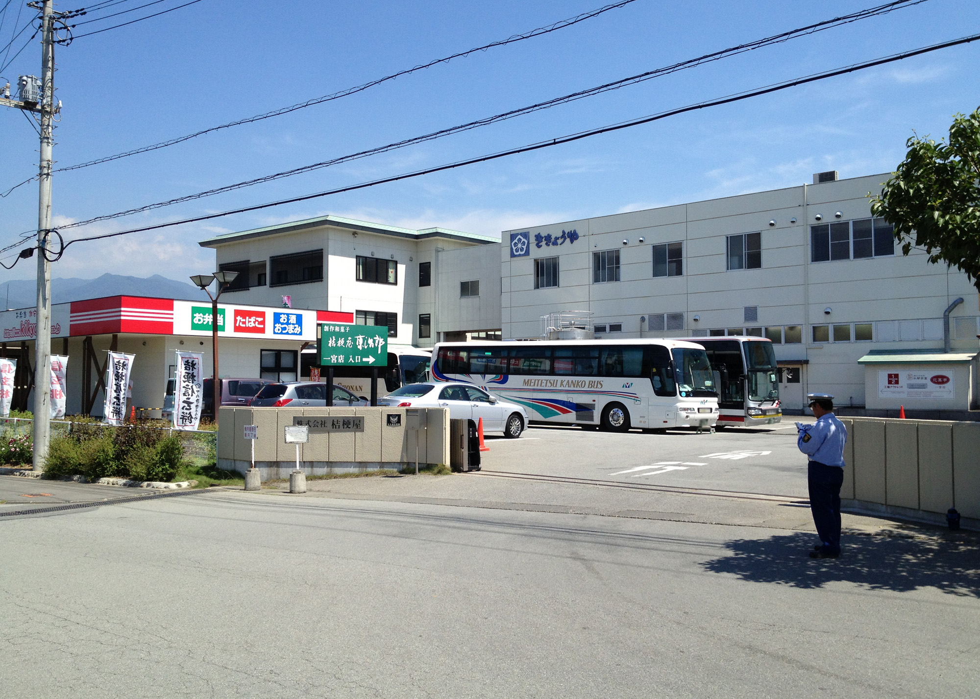 The head office of KIKYOUYA Co. Ltd., Fuefuki City, Yamanashi Pref., Japan.